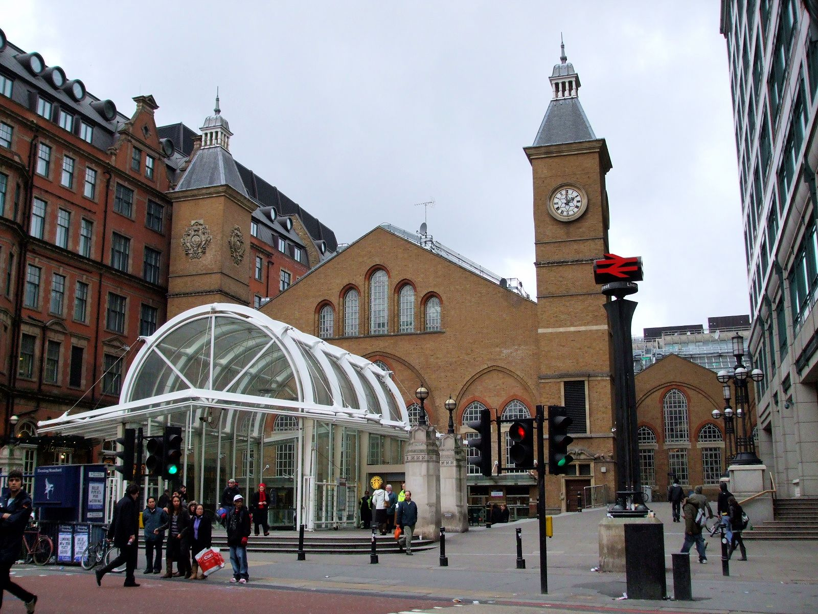 Entrance to Liverpool Street railway station on Bishopsgate